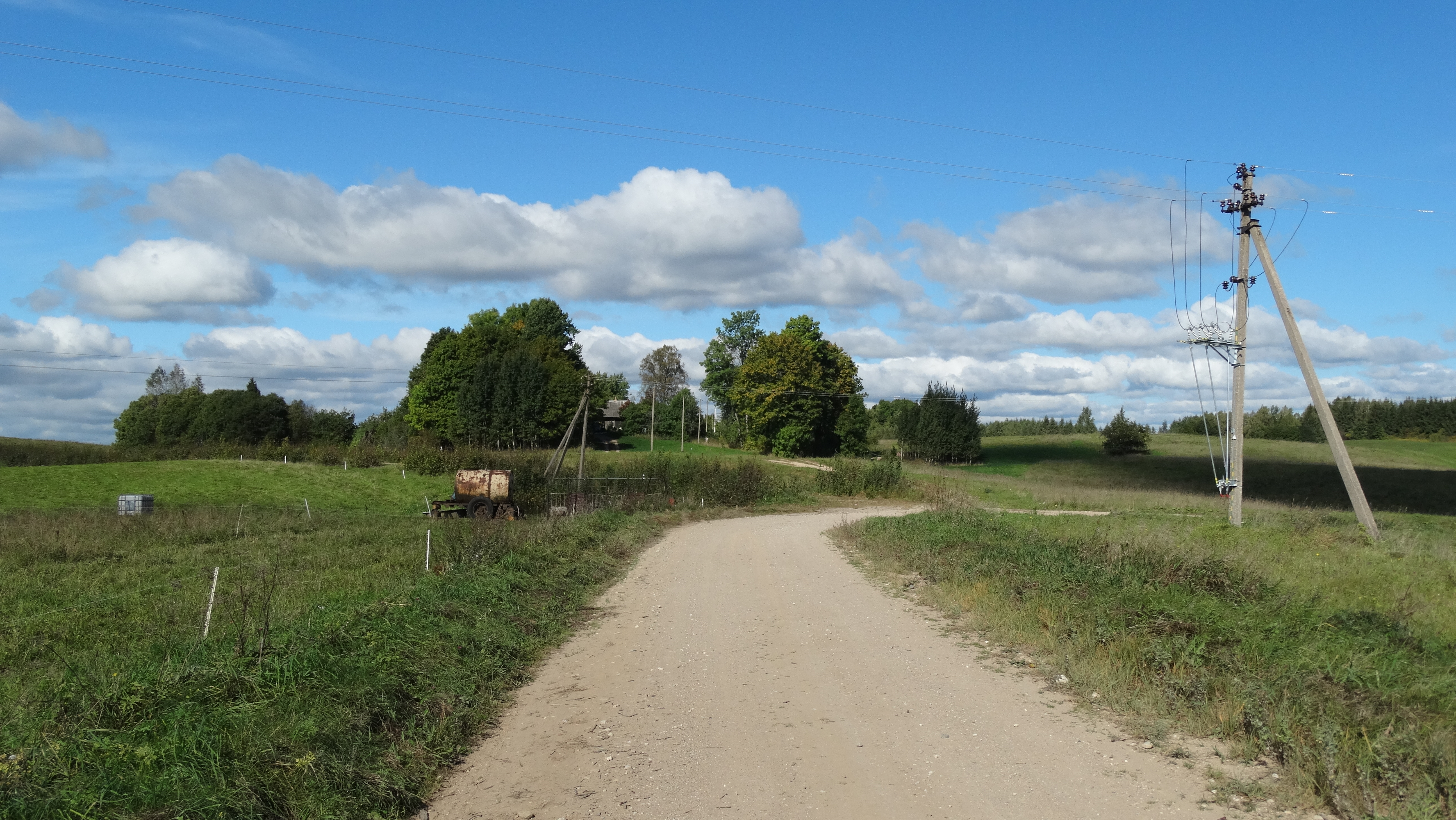 Aukštakalniai, Ignalina District, Lithuania